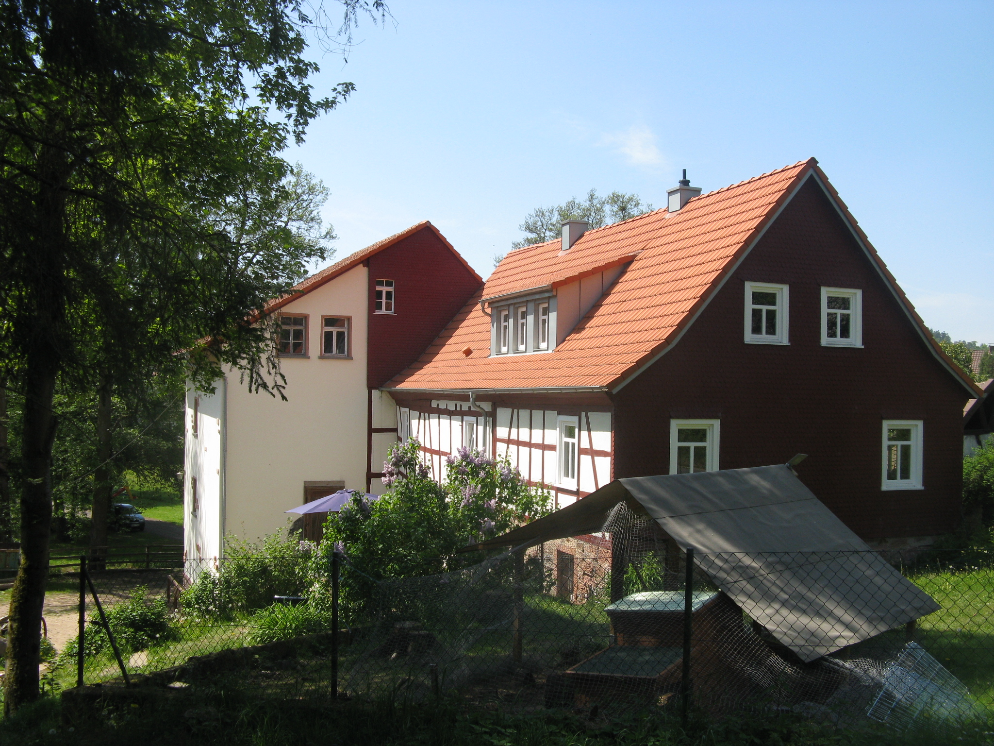 Kasselgrund, upper mill, Biebergemünd/Germany